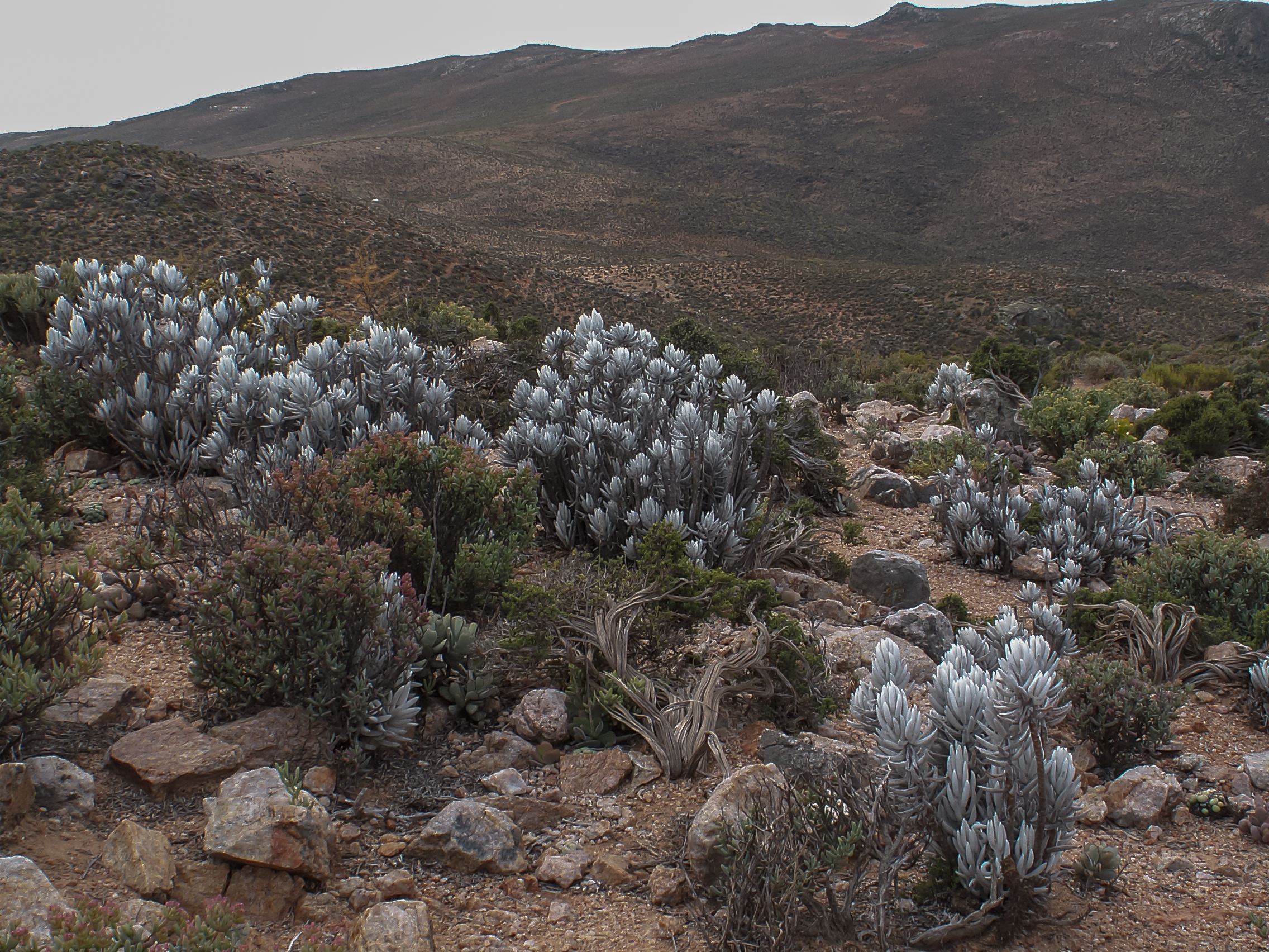 woolly senecio Senecio haworthii (Sweet) Sch.Bip., Asteraceae, Richtersveld National park, Northern Cape, South Africa